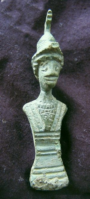 A small bust of a deity found on the West Cambridge site, Cambridge, England. Made from a copper alloy.